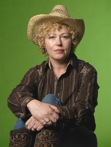 Linde Ivimey Portrait